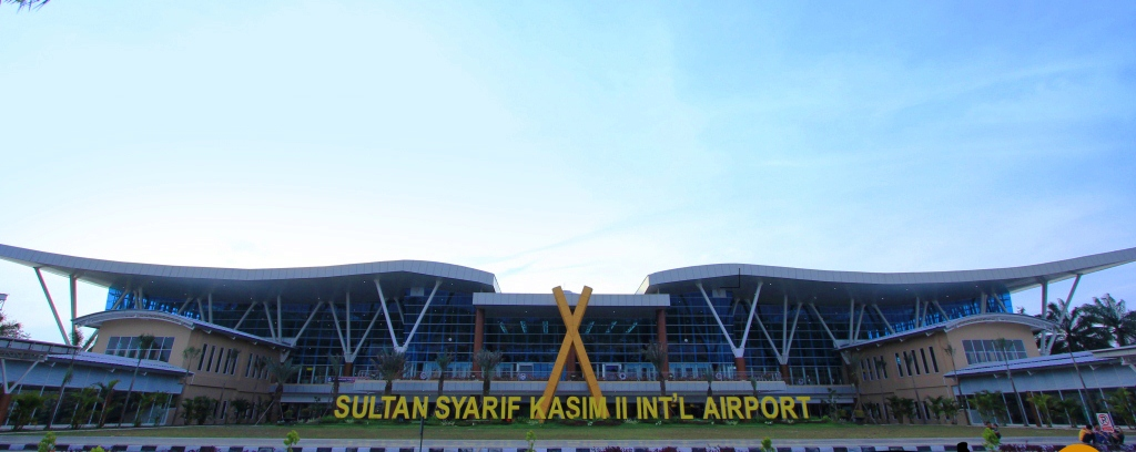 The international Airport of Pekanbaru city